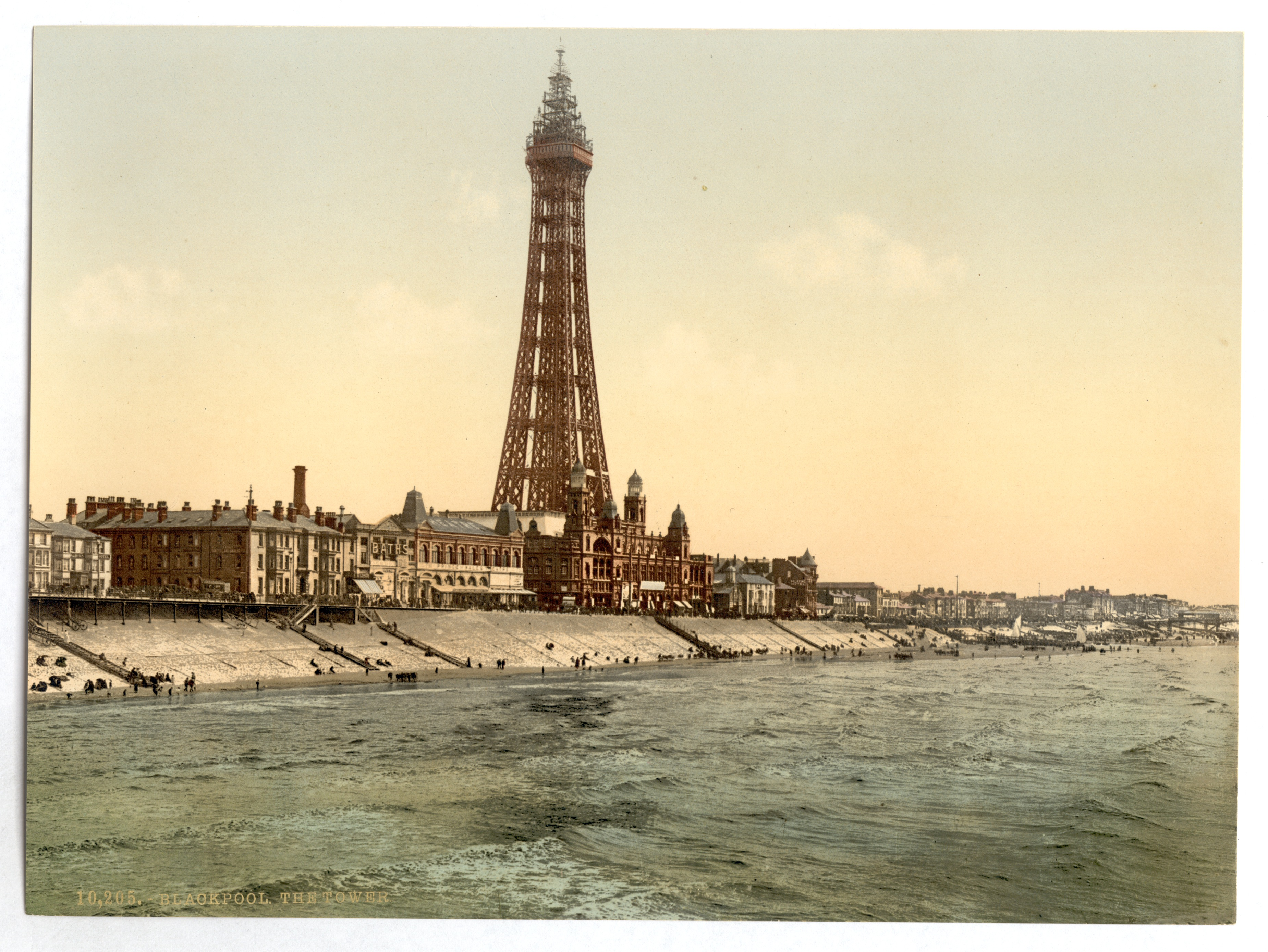 Forms part of: Views of the British Isles, in the Photochrom print collection.; More information about the Photochrom Print Collection is available at Title from the Detroit Publishing Co., Catalogue J-foreign section, Detroit, Mich. : Detroit Publishing Company, 1905.; Print no. "10205".